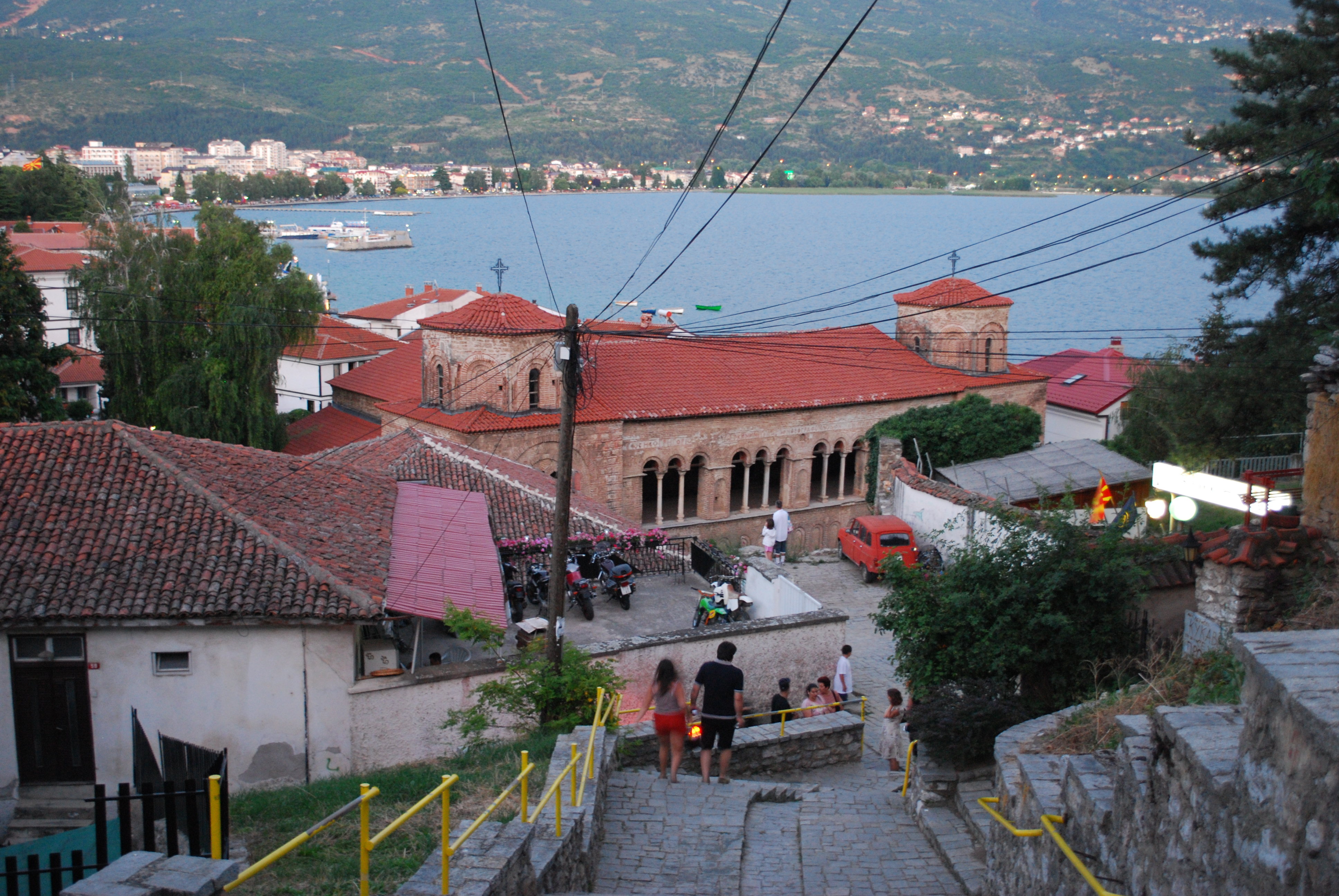 St. Sophia Church in Ohrid, Macedonia.